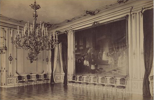 "Coronation" Room in the Royal Castle of Budapest.